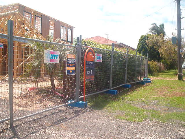 Australian temporary fencing.